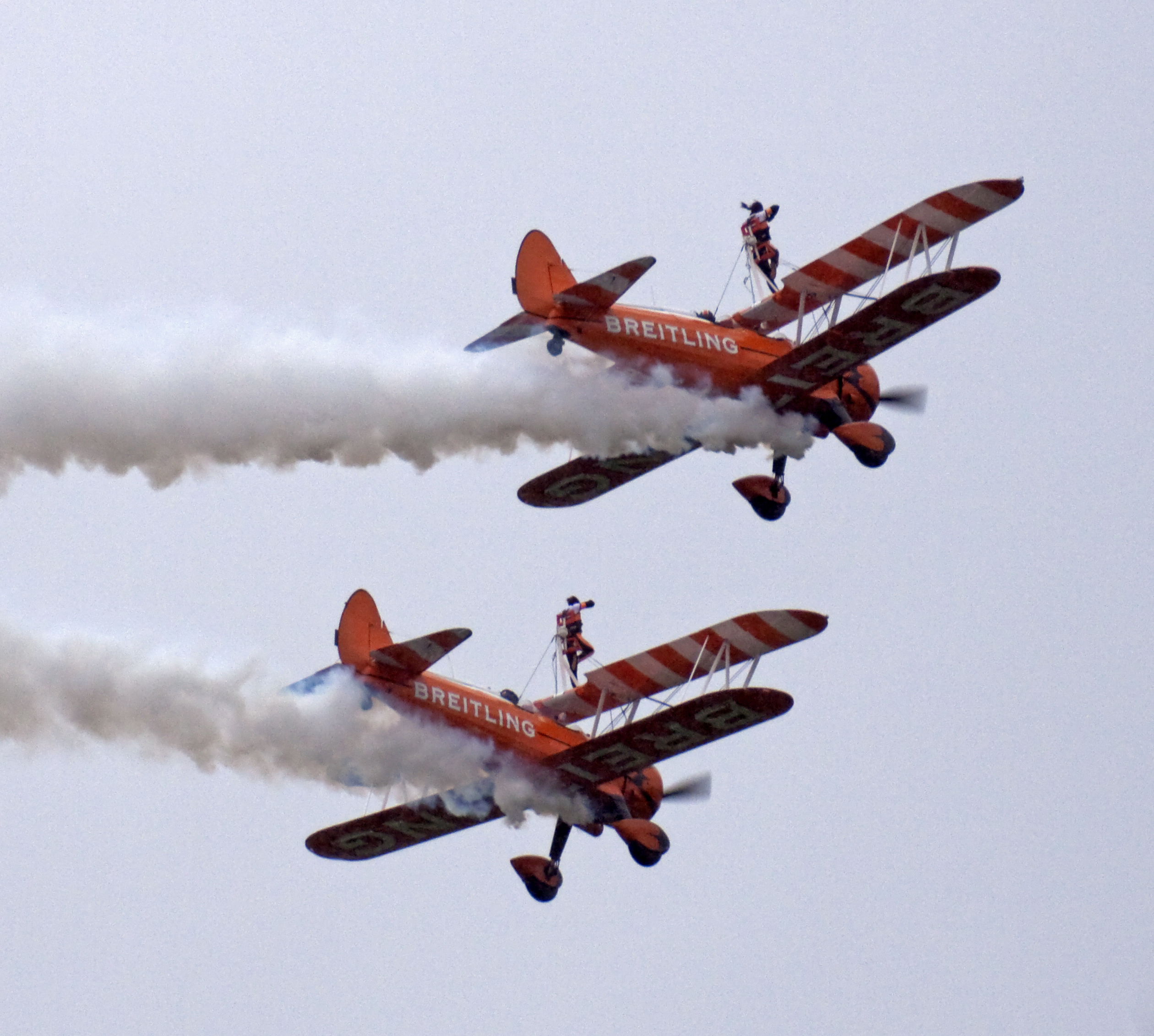 I was stuck in a traffic jam trying to get out off Cosford, when the Breitling Wing Walkers took off. I have nothing but admiration for the girls on the top of that wing. It was cold and absolutely pouring with rain.